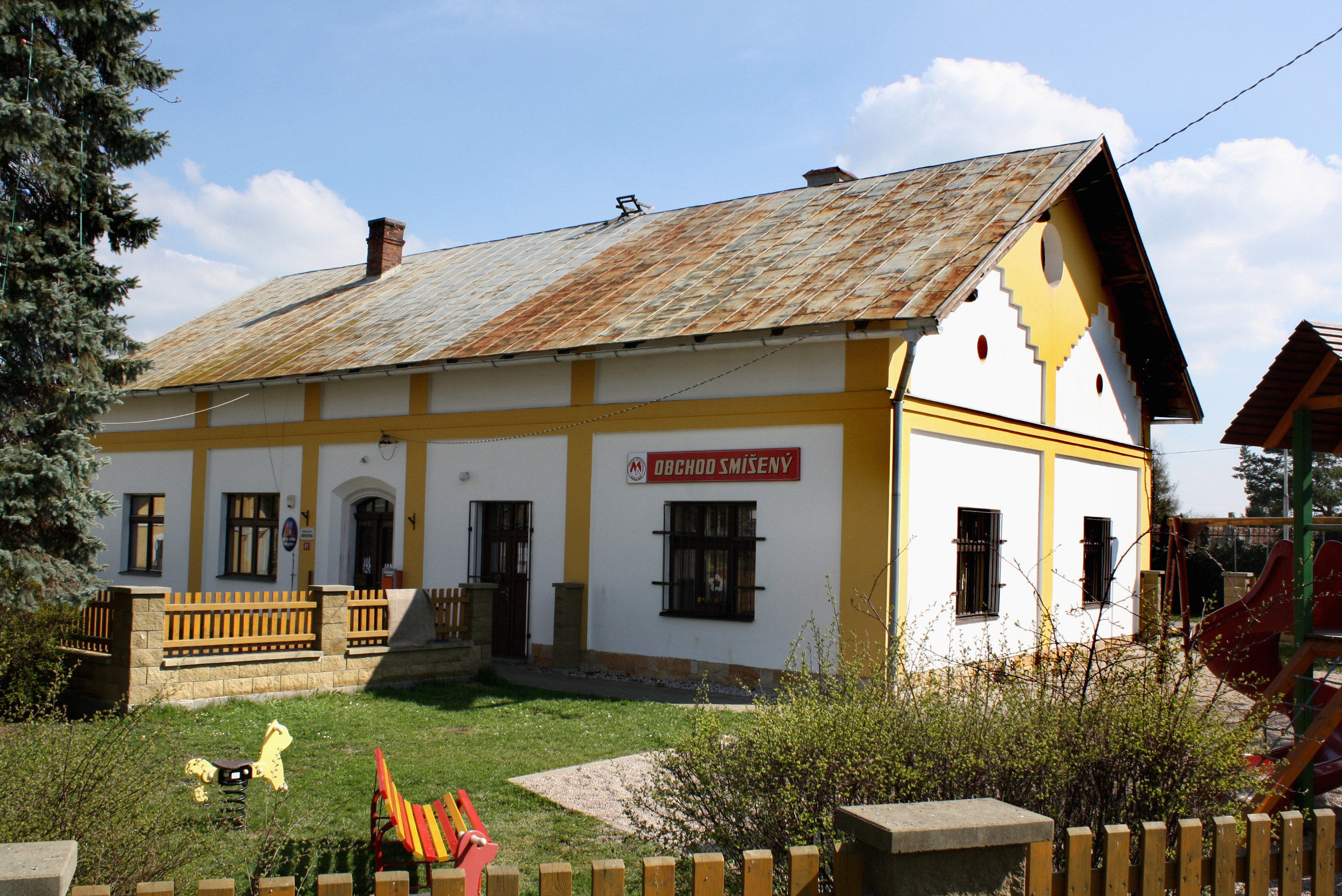 Municipal office in Chroustov, Czech Republic